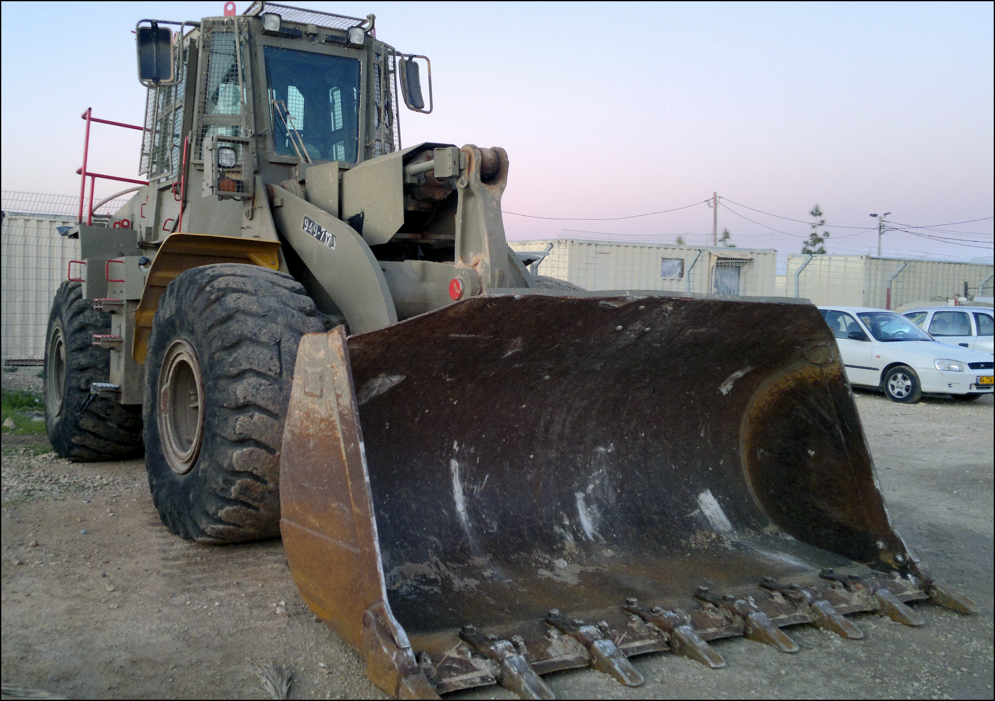 IDF armored wheel loader